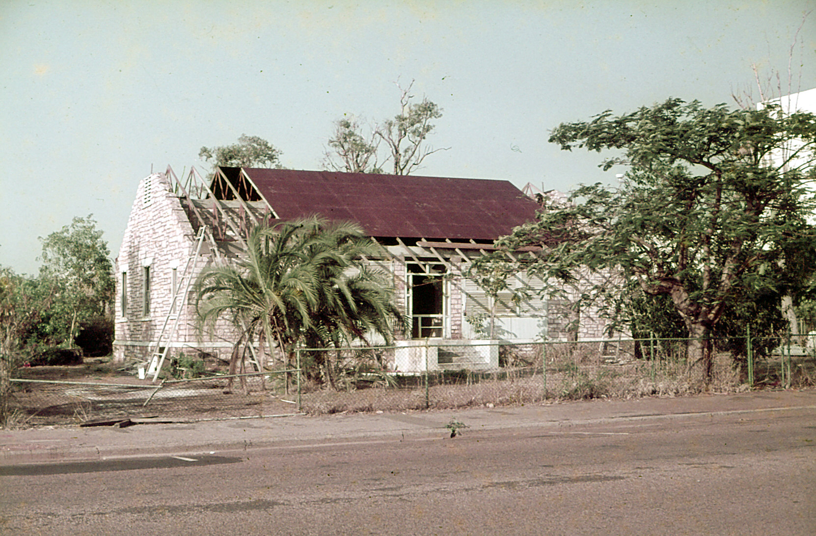 Lyons Cottage on the corner of Knuckey Street and The Esplanade Darwin was damaged in Cyclone Tracy. Reconstruction work commenced in 1978.